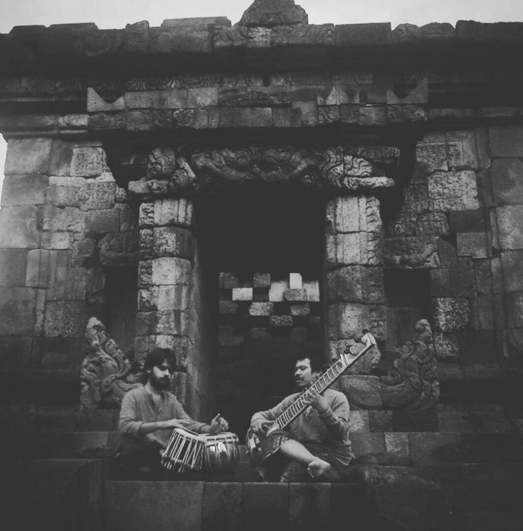 Log sanskrit activity